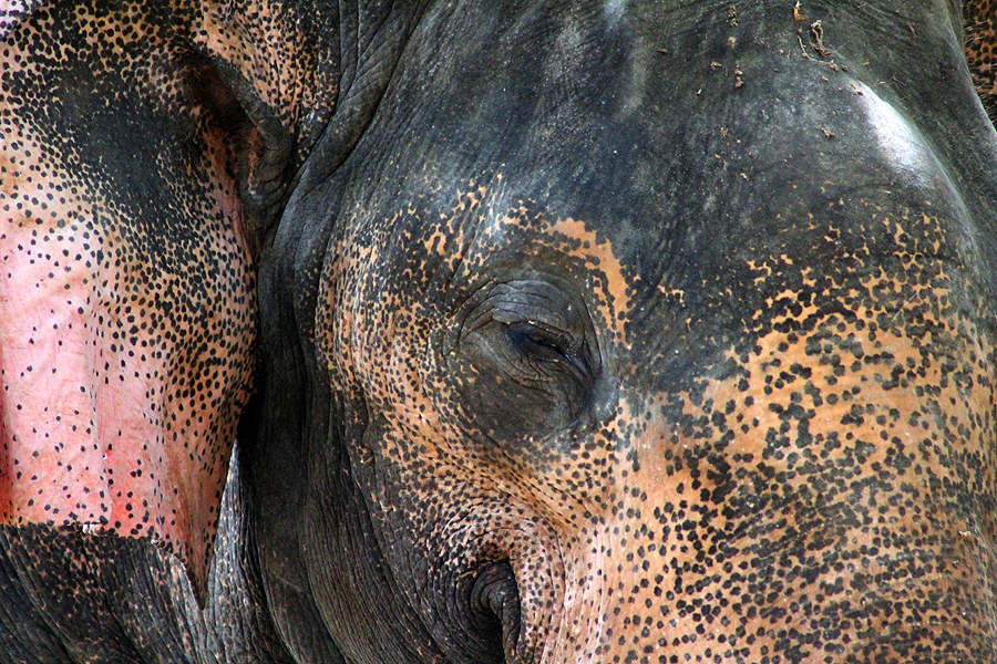 Elephant at Guruvayur